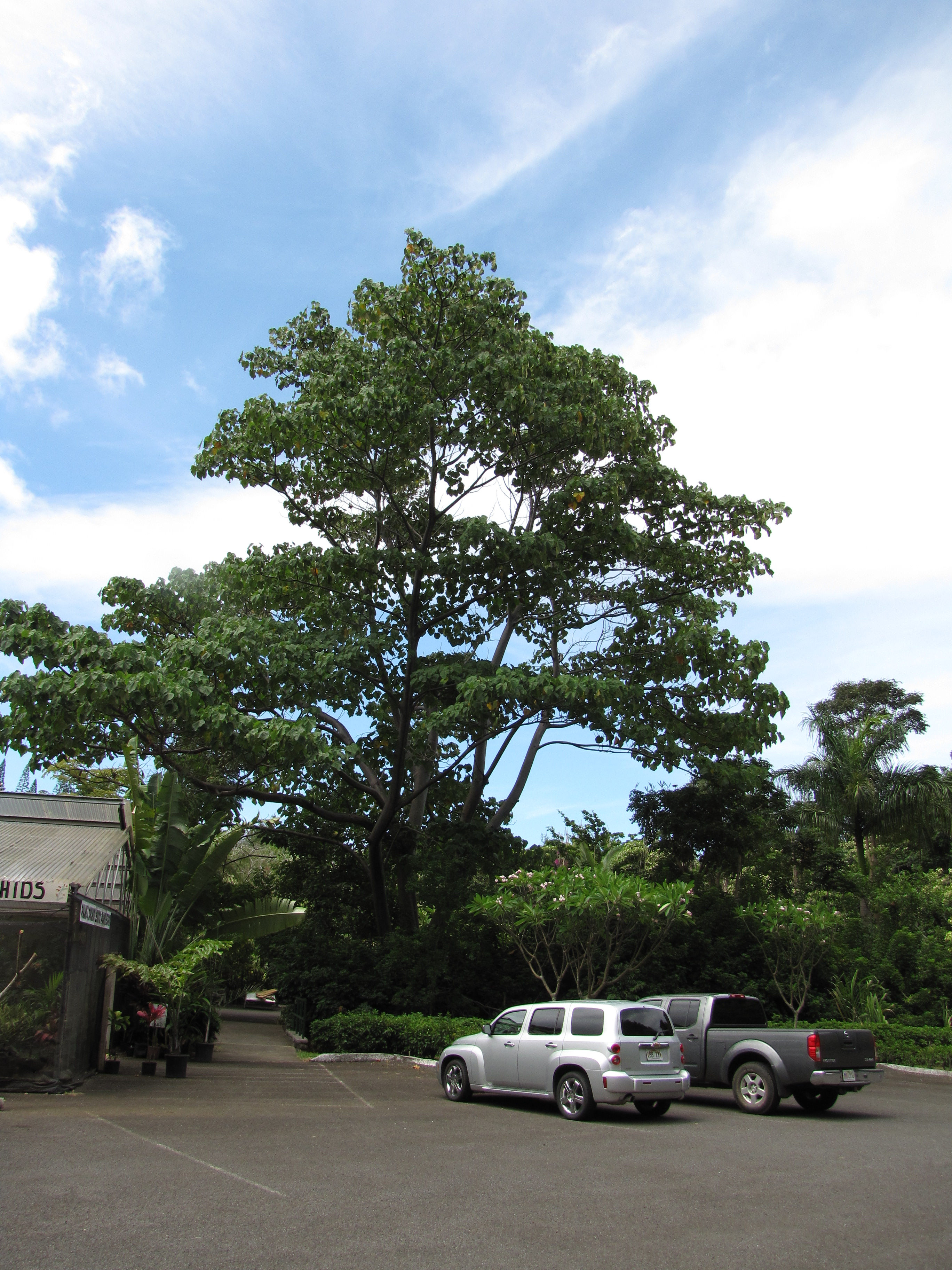 Ochroma pyramidale (balsa, corkwood), large tree habit at Tropical Gardens of Iao Valley Road, Maui